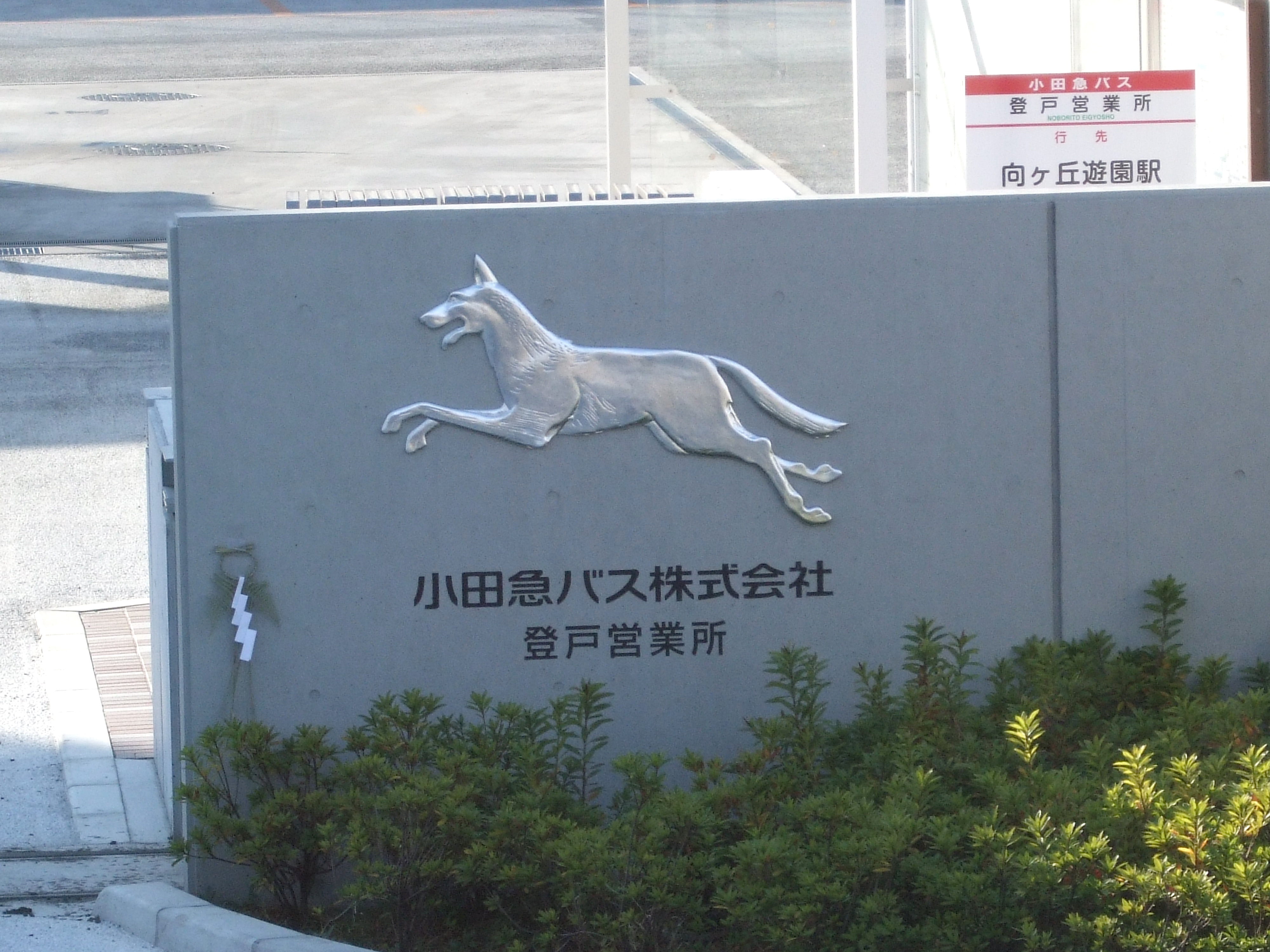 Odakyu Bus Noborito Depot